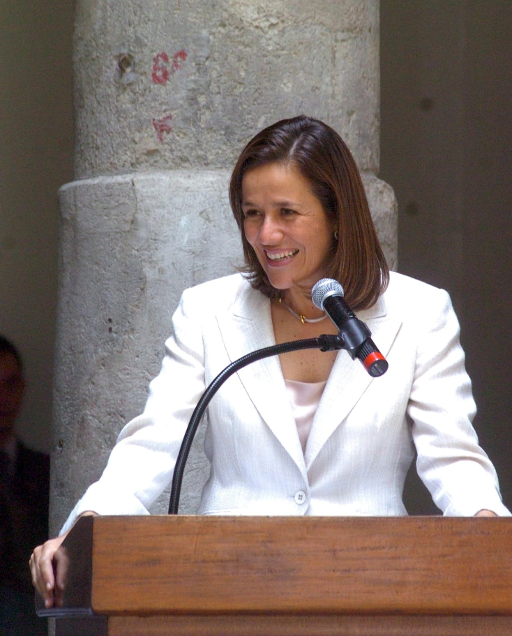 Wife of Mexican President Felipe Calderón and therefore the First Lady of Mexico. They married on January 1993. She was a PAN deputy in 2006 in the LIX Legislature of the Mexican Congress.